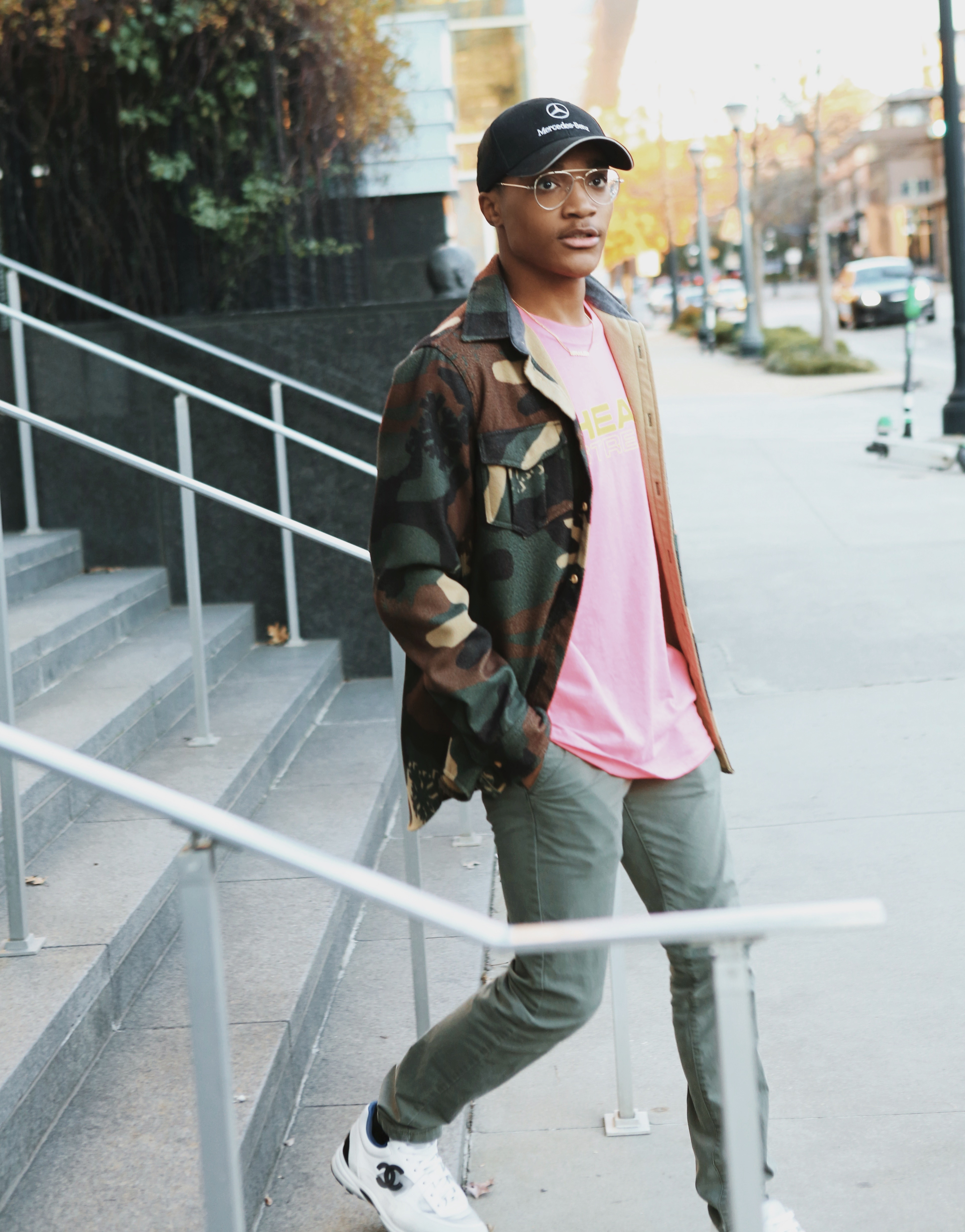 Julien George